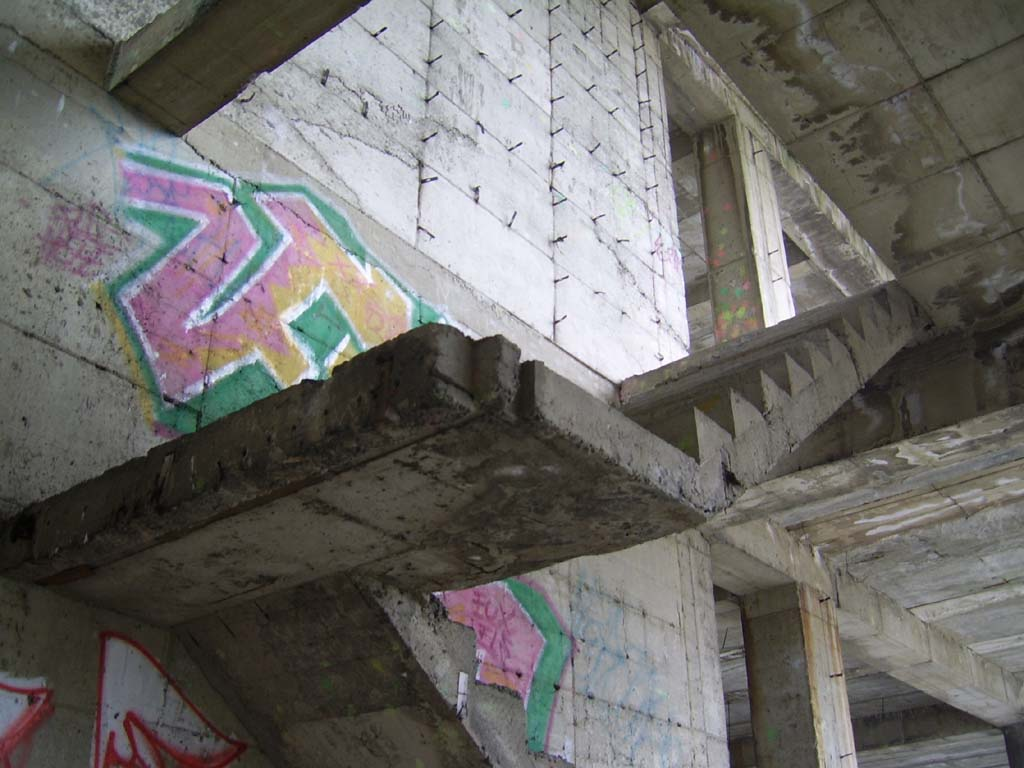 budomel, stairs